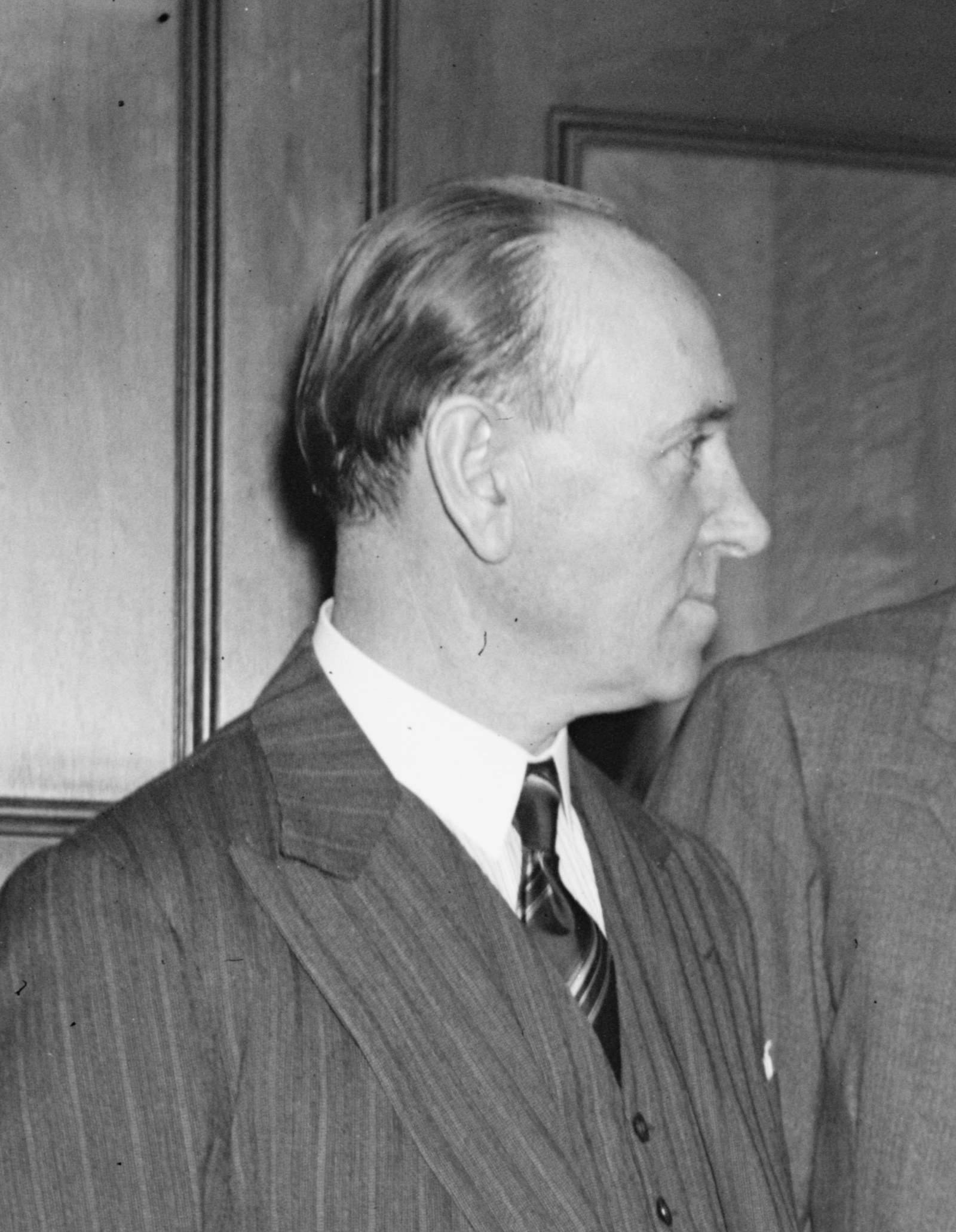 Trans-Atlantic permits handed out. Washington, D.C., April 20. The Dept. of Commerce today awarded permits to the Pan American Airways from Great Britain, Canada and the Irish Free State. These permits are all non-exclusive and convey flying rights in and out of these countries for Trans-Atlantic Air service between New York and London. Left to Right: Sir Herbert Marler, the Canadian Minister; Michael MacWhite, Irish Minister; Sir Ronald Lindsay, the British Ambassador; Juan T. Trippe, President of Pan American Airways who is receiving the permits from the Secretary of Commerce Daniel Roper, 4/20/1937